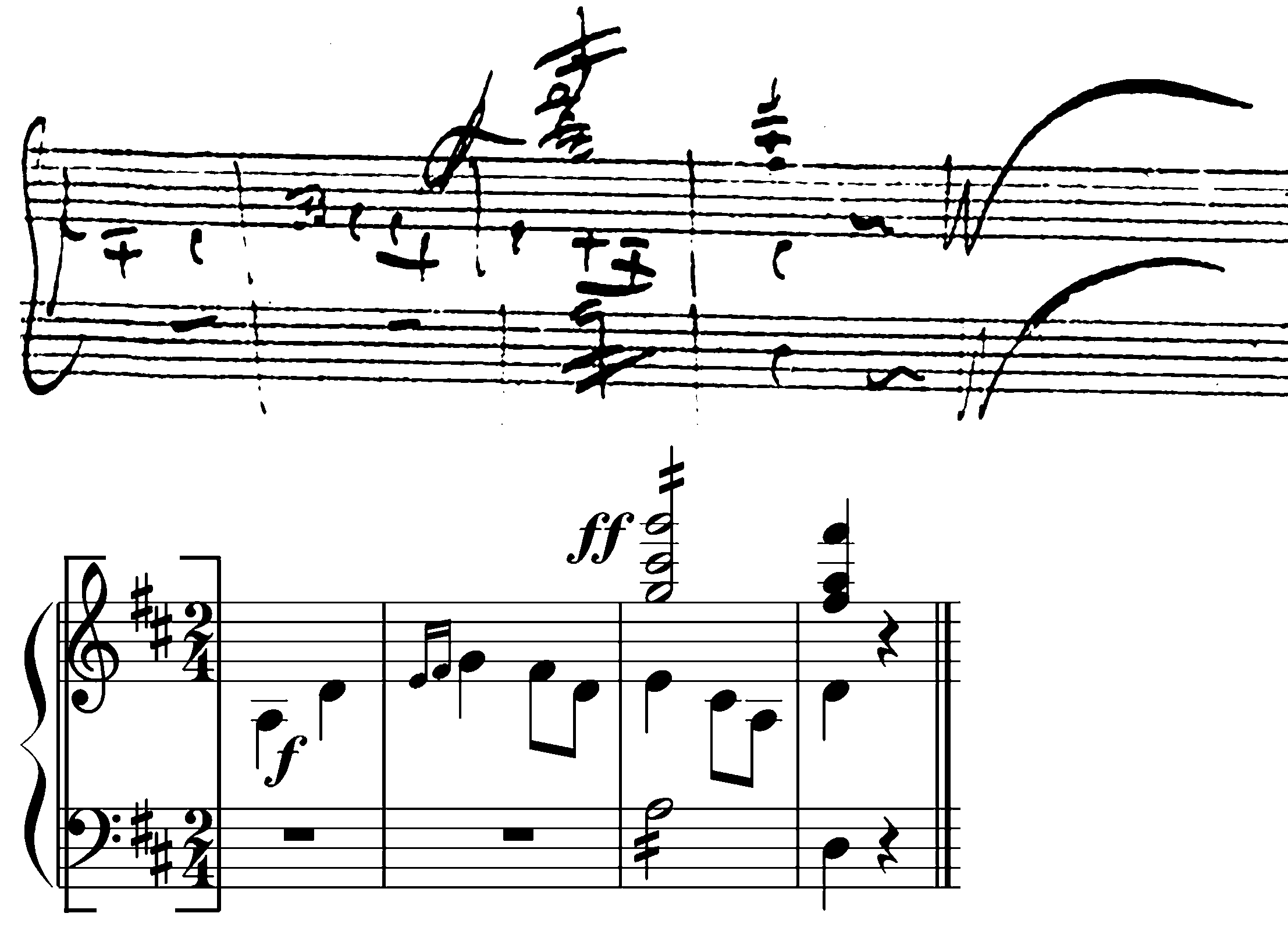 The last measures of the 3rd mov. of Schubert's 10th symphony. Notice the double barline